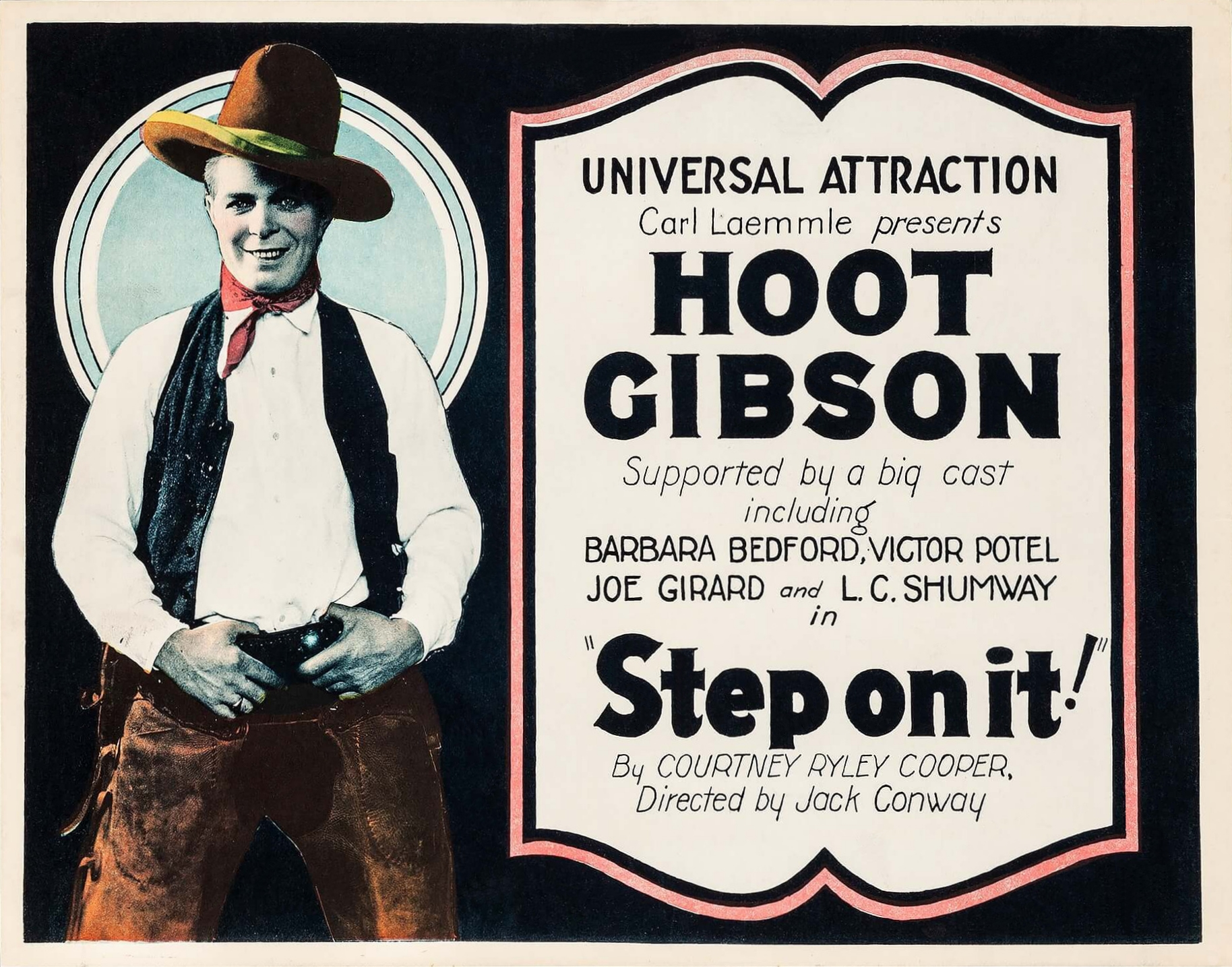 This is a lobby card for the American silent Western film Step on It! (1922).